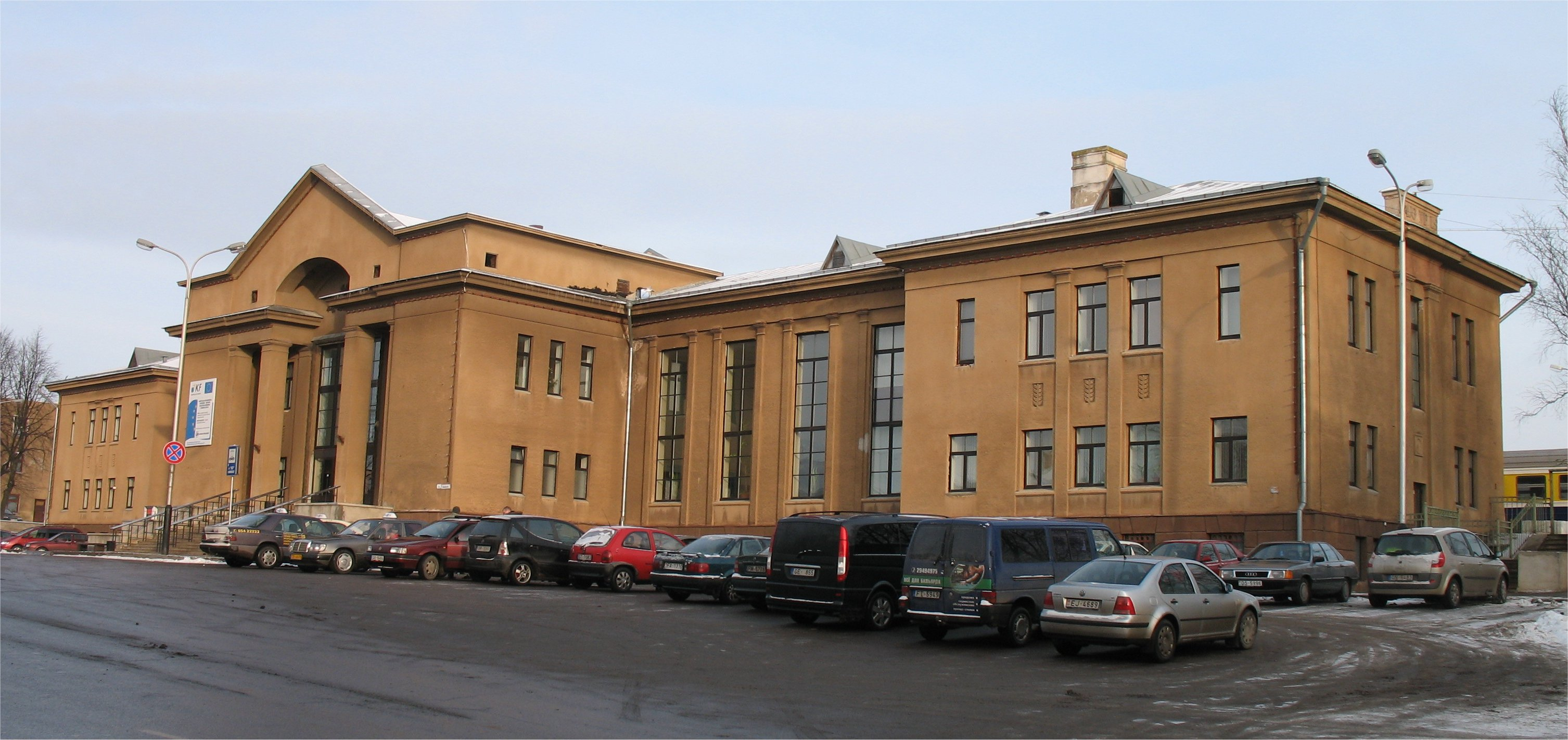 Railway station of Daugavpils city, in the southwestern Latvia. Latgaļu: Daugpiļs dzeļžaceļa staceja